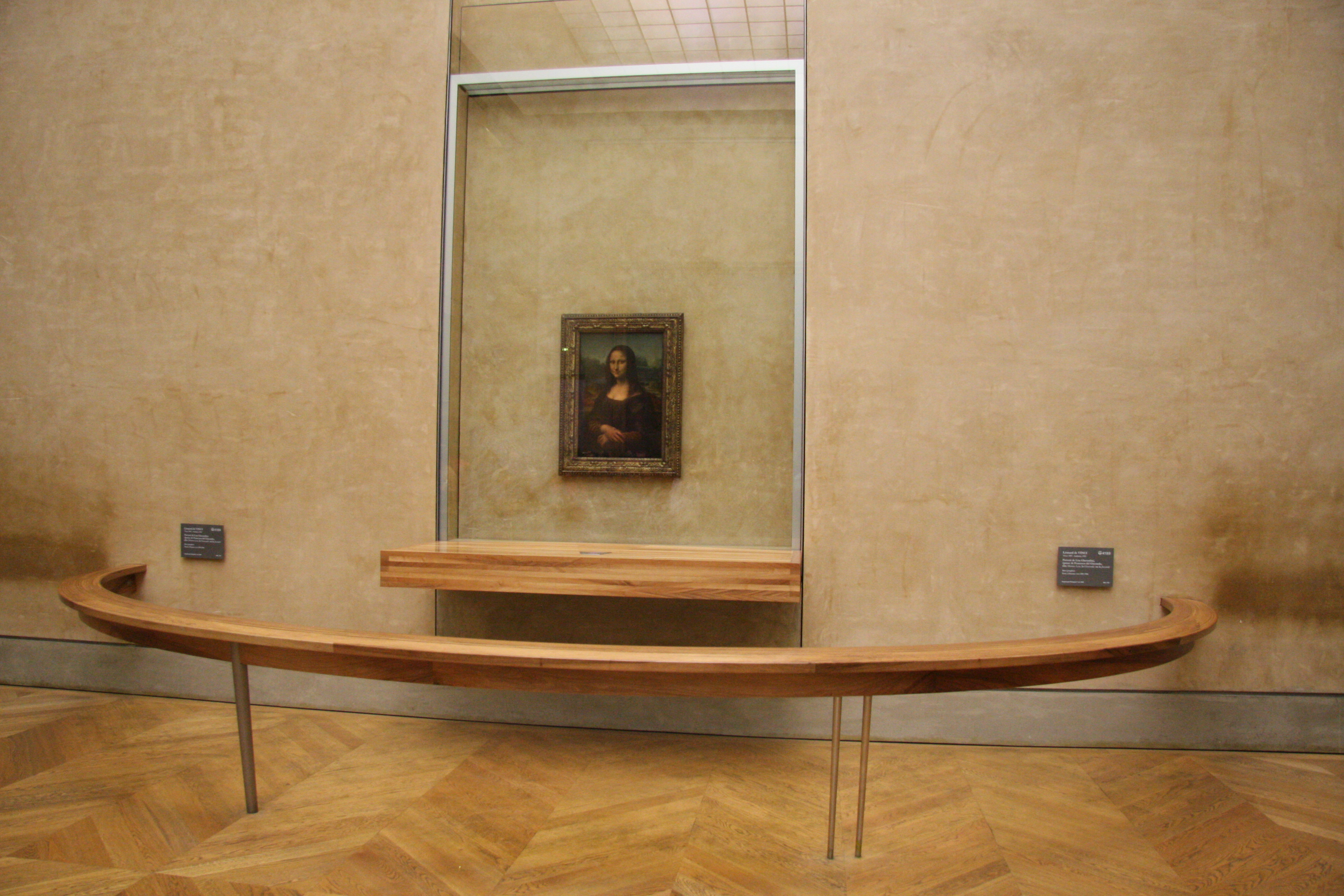 Photos of Mona Lisa in Louvre